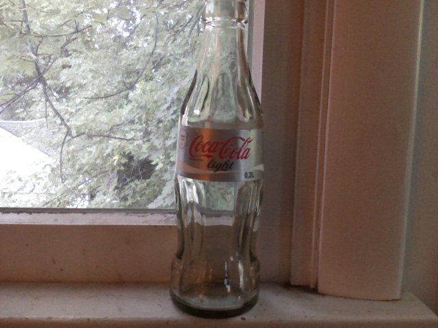 German Coke light bottle